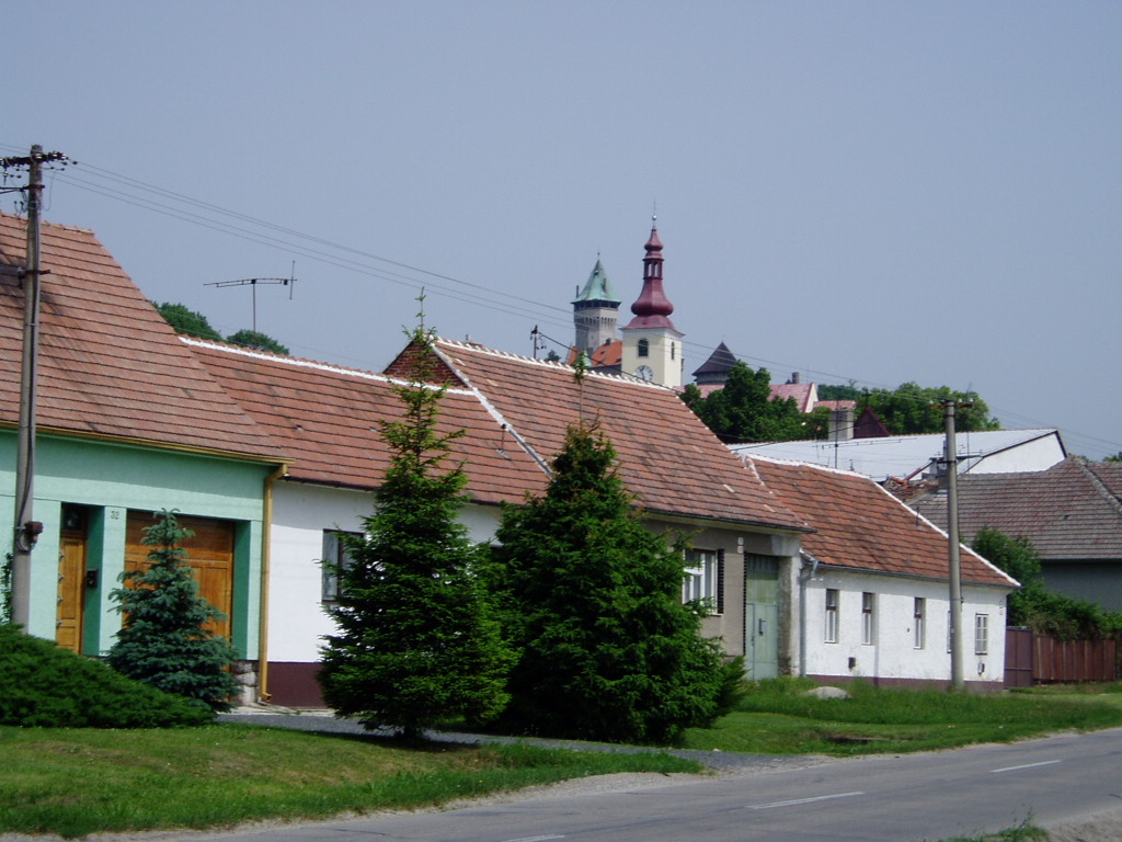 Perspective of the castle and the church from Smolenice